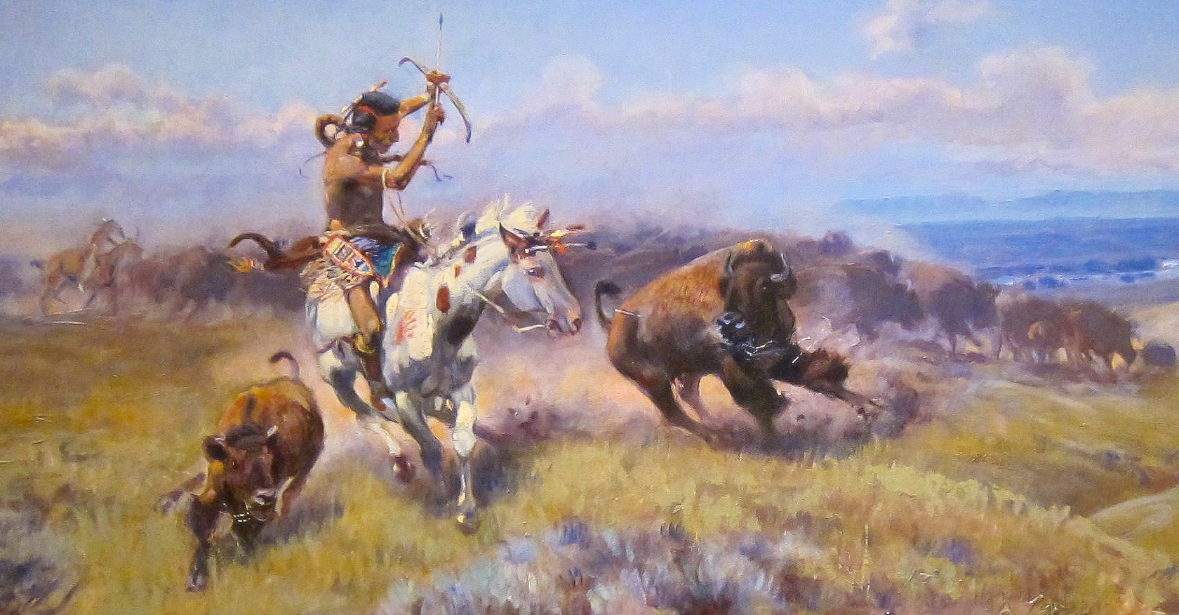 Clipping of the Painting 'Fighting Meat' by Charles Marion Russell, Cincinnati Art Museum